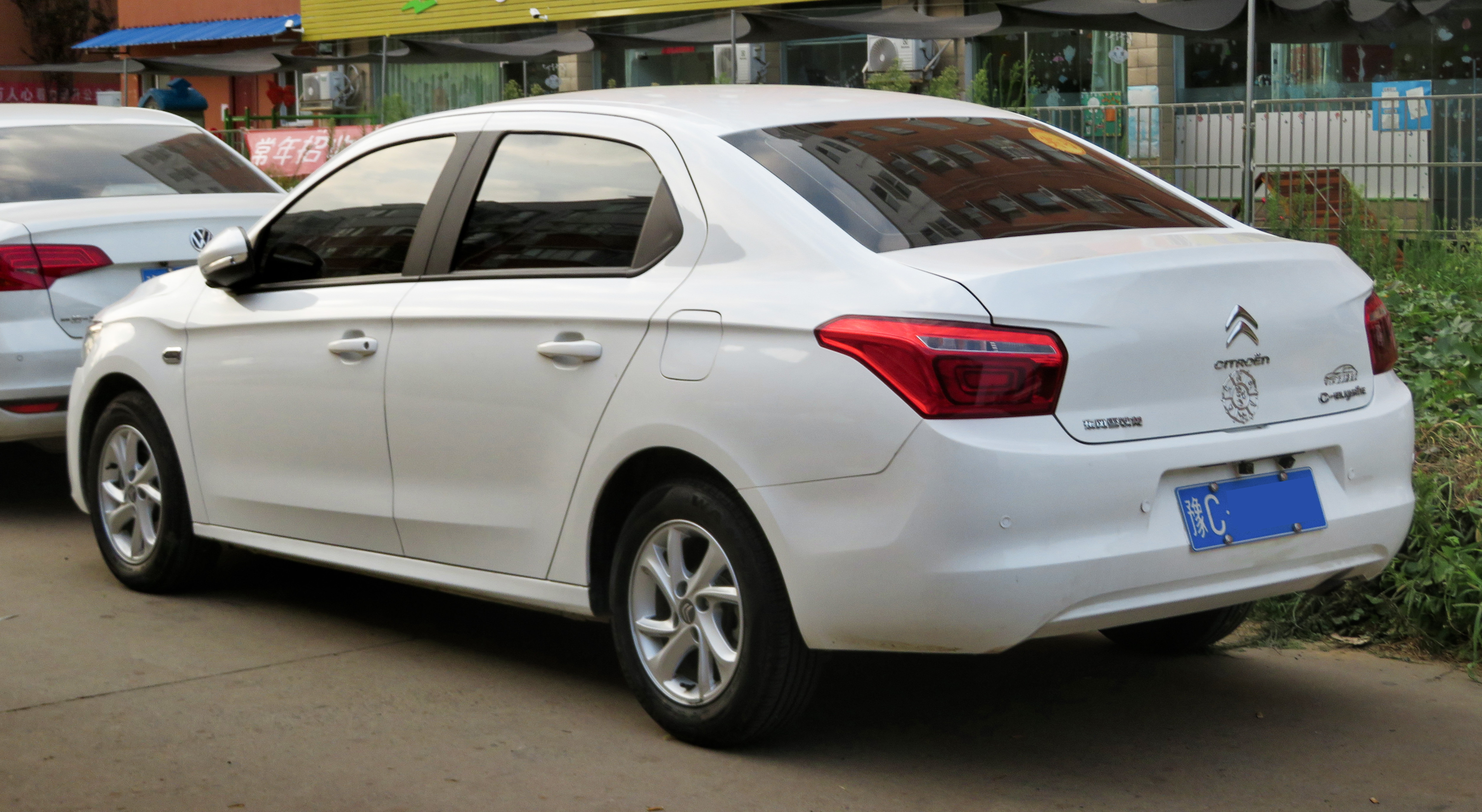 A 2018 Dongfeng-Citroën C-Elysée facelift photographed in Xigong District, Luoyang, Henan province, China